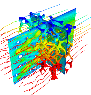 This pictures shows heat transfer and flow results of numerical simulation using CFD software on 3D open cell foam geometry. One can observes the foam surface colored by temperature and plane sections colored by velocity magnitude.